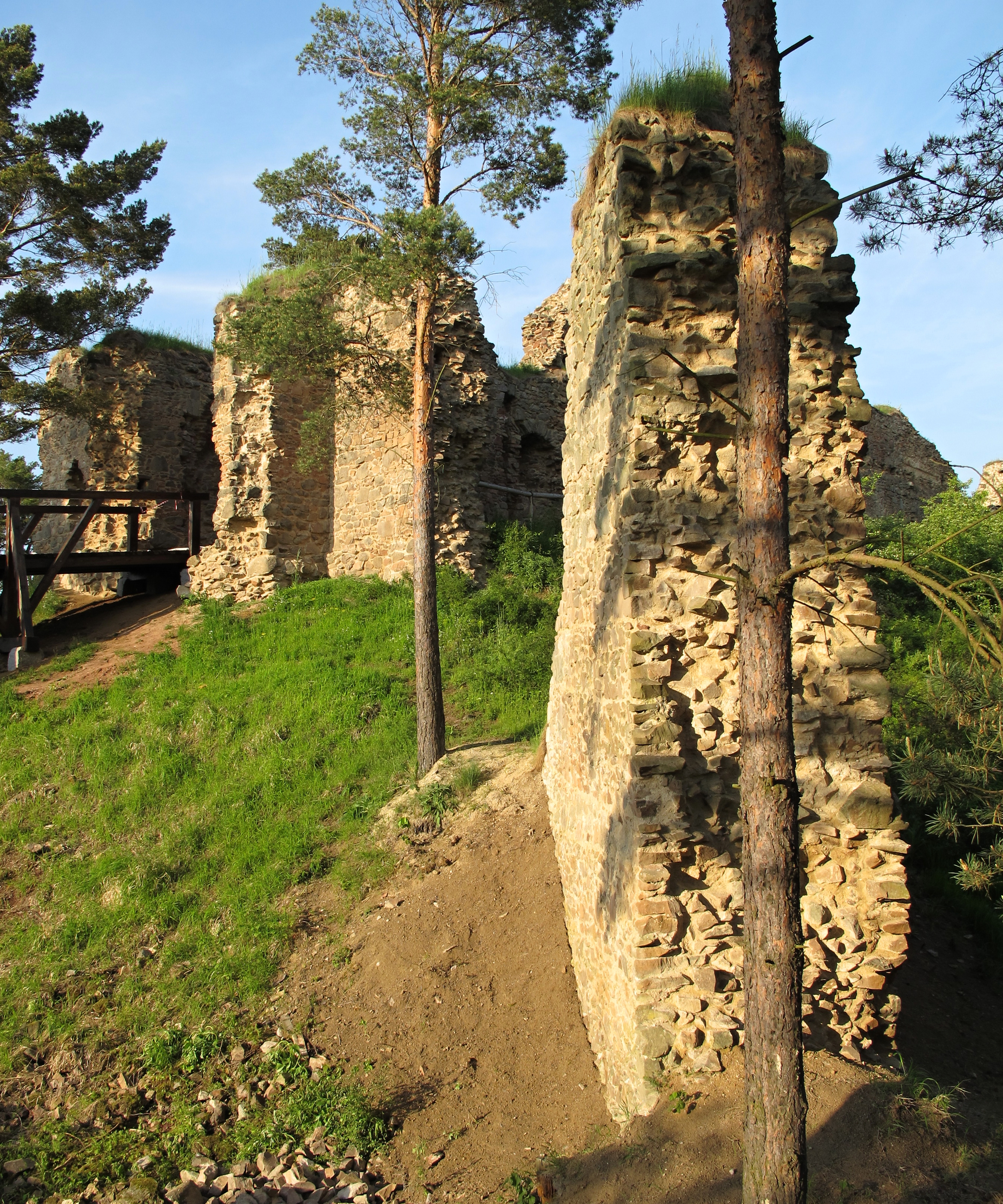 ruins of Vrškamýk Castle near Kamýk nad Vltavou, Příbram District